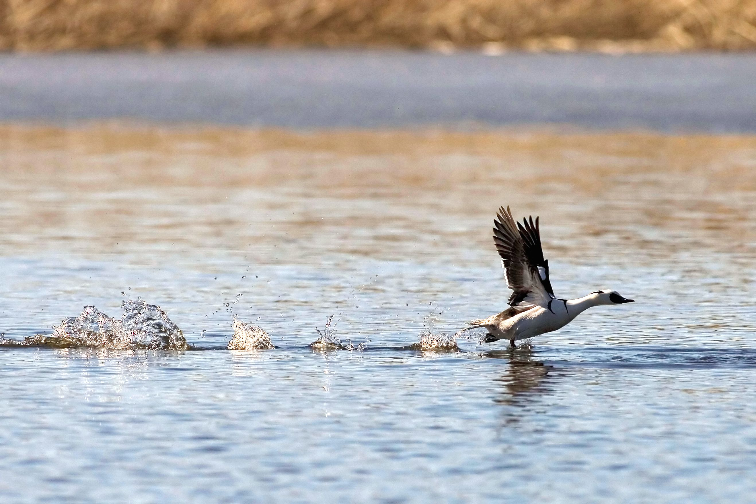 Smew (Mergellus albellus) accelerating to flight. The image has been rotated 180 degrees around vertical axis. Photographed at Vanhankaupunginlahti, Helsinki, Finland. The location is listed in Ramsar "List of Wetlands of International Importance". Geographic location (N):23355 (E):52520.